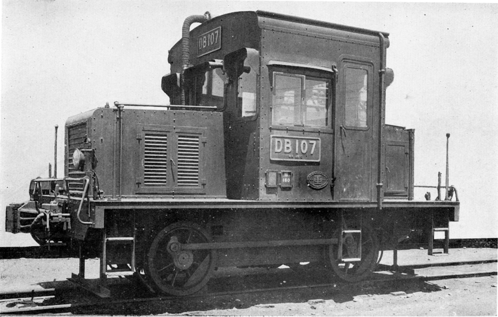 Picture of JGR's DB10 type diesei locomotive